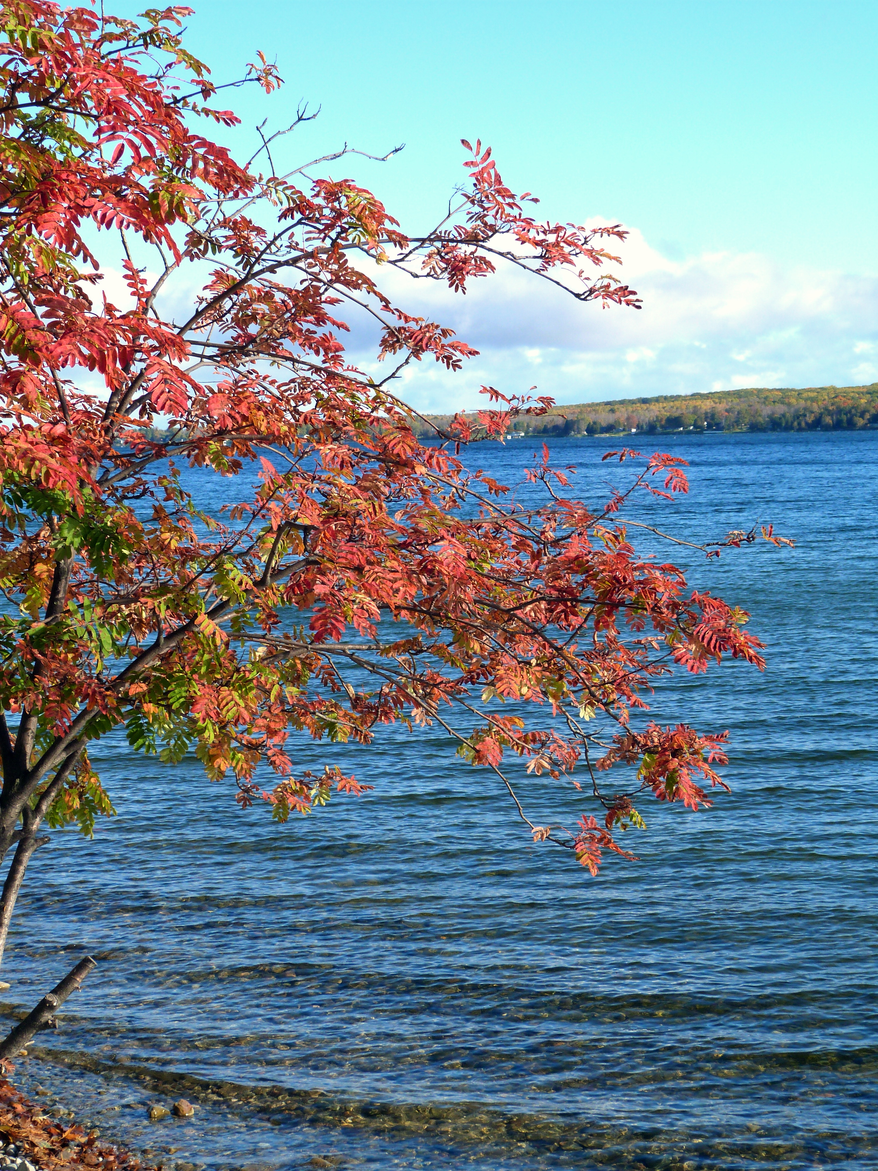 Foliage of mountain-ash (Sorbus aucuparia) in autumn at Hubbard Lake, Michigan, United States.